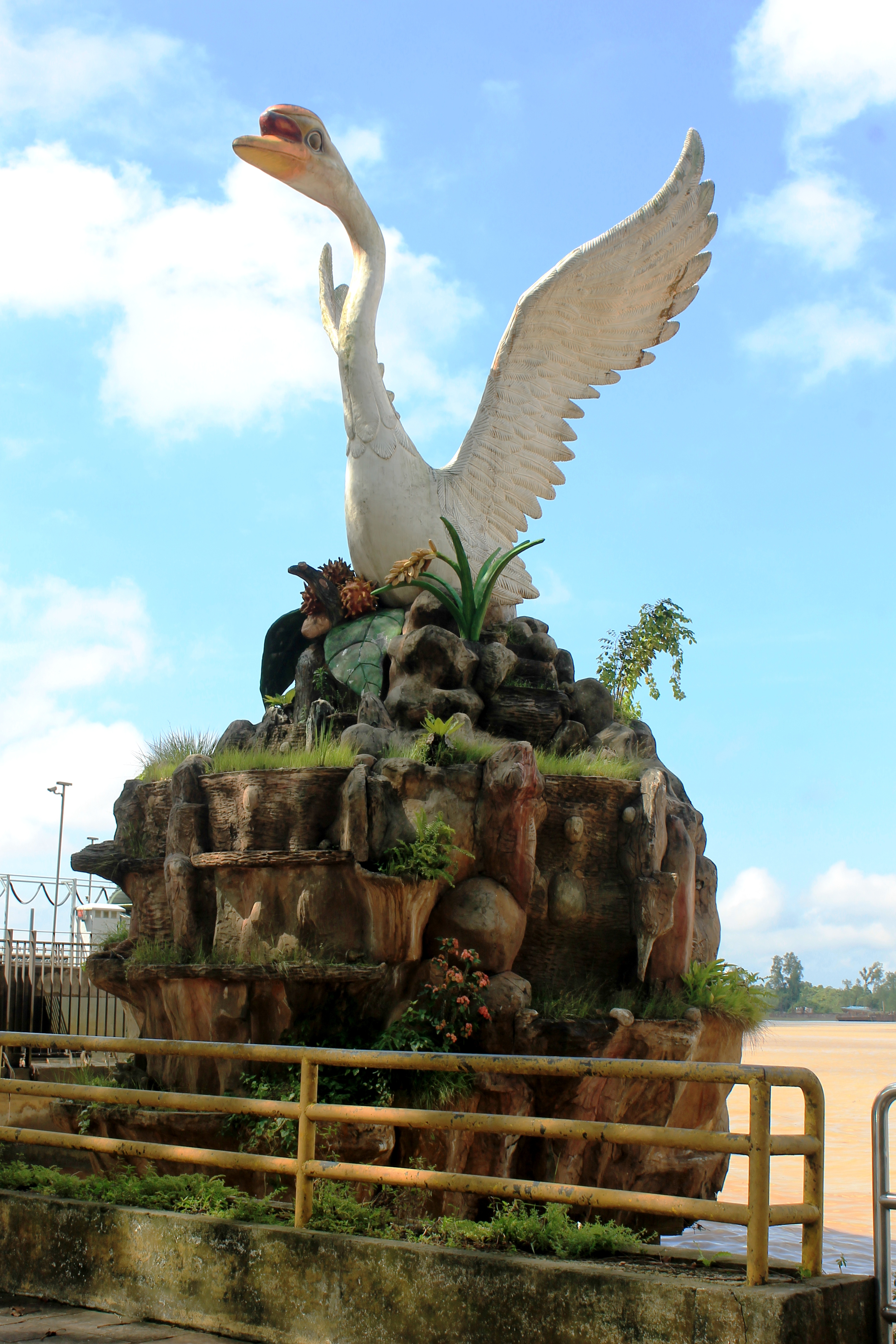 Swan statue at the Rajang Esplanade